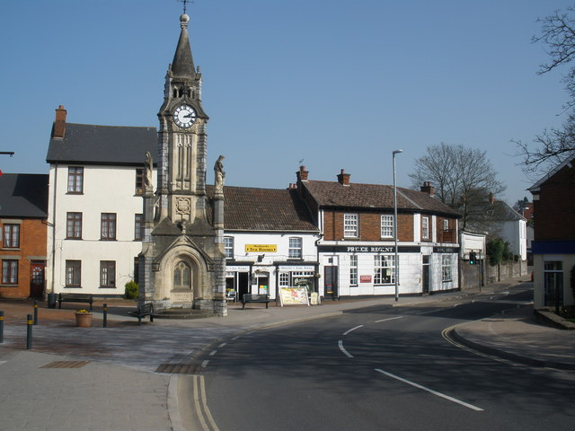 Clock Tower, on Gold Street, Tiverton